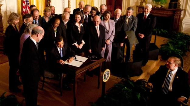 President Obama signs an Executive Order lifting restrictions on stem cell research as well as a Presidential Memorandum ensuring that sound science be protected from politics.